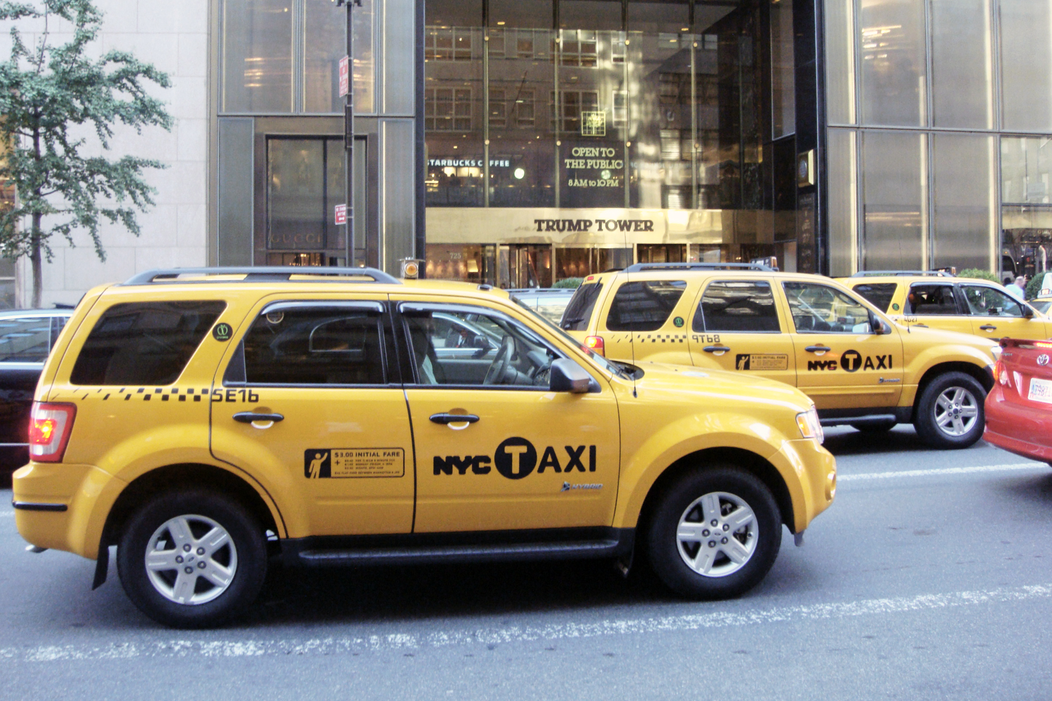 Ford Escape Hybrid taxis in Fifth Avenue, Manhattan, NYC